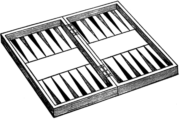 An empty backgammon board.